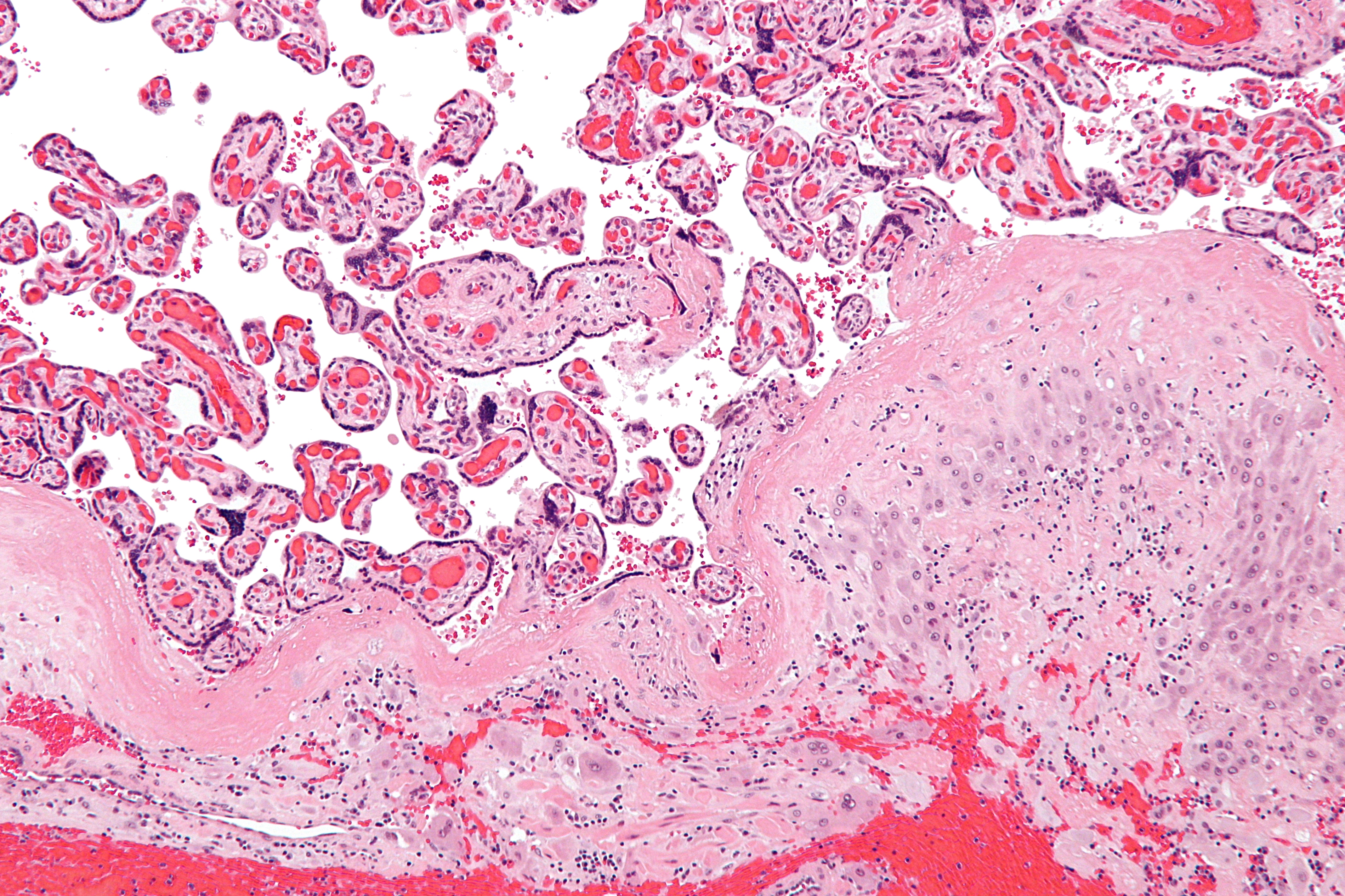 Intermediate magnification micrograph of plasma cell deciduitis, also chronic deciduitis. Placenta. H&E stain. Chronic decidiuitis, characterized by plasma cells in the decidua, is associated with preterm labour.[1] Related images Intermed. mag. High mag. Very high mag. References ↑ "The prevalence of chronic deciduitis in cases of preterm labor without clinical chorioamnionitis.". Pediatr Dev Pathol 12 (1): 16-21.